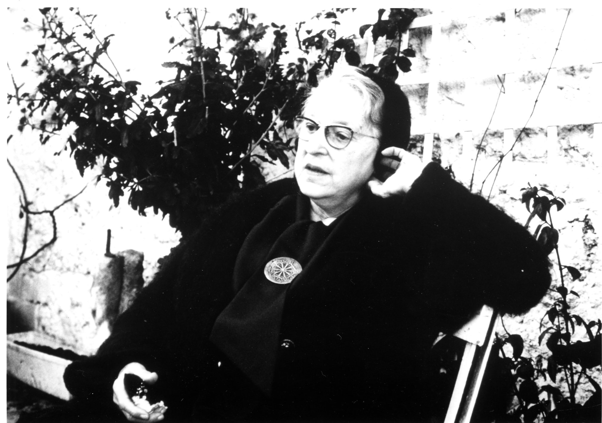 The German silhouette animation film artist Lotte Reiniger in London